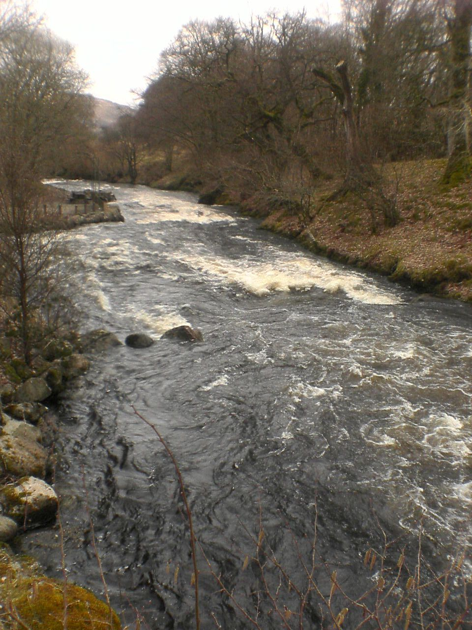 Canolfan Tryweryn - Fingers, author Jamsta 12:13, 15 September 2006 (UTC)